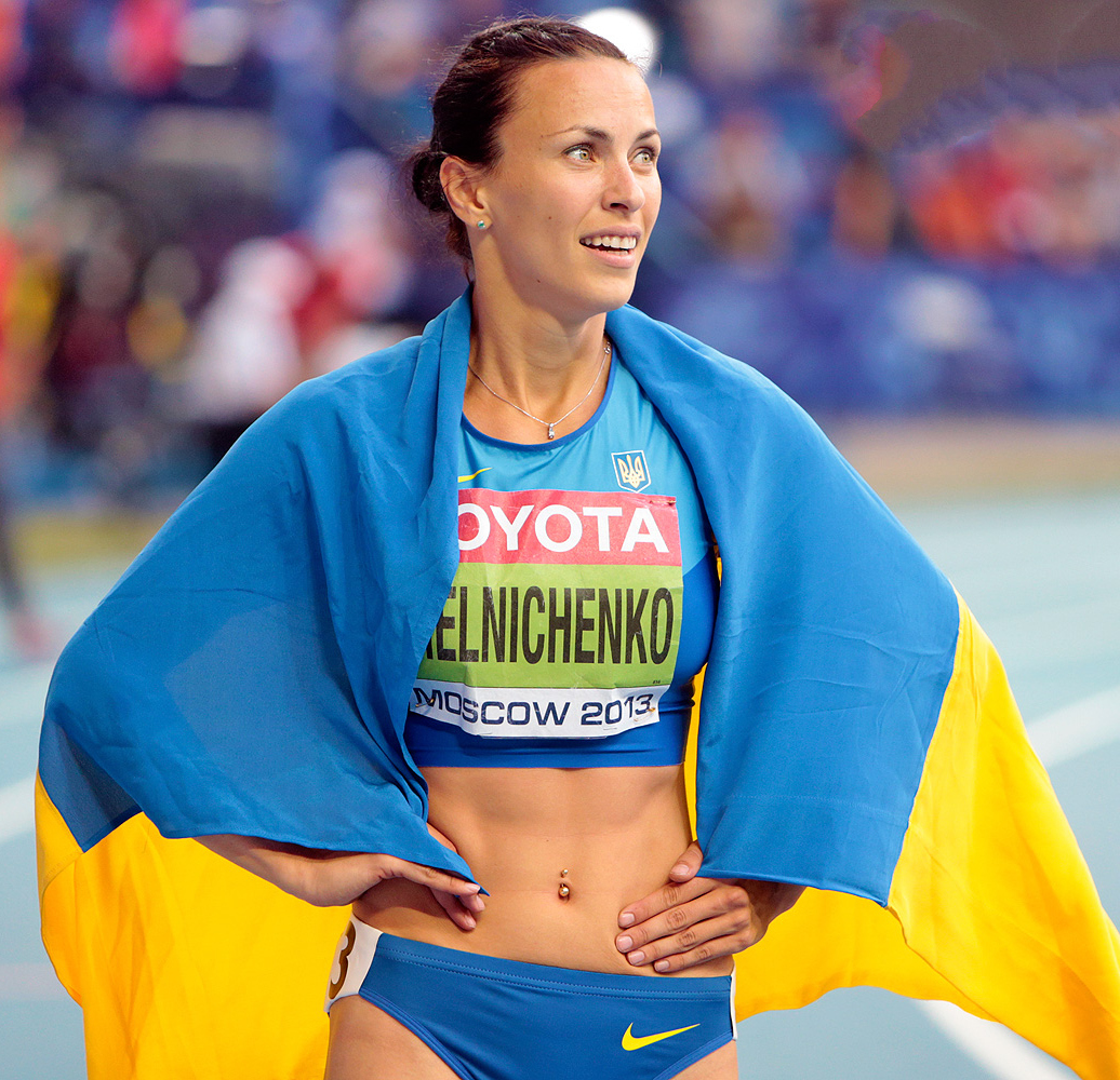 Hanna Melnichenko on 14th IAAF World Championships in Athletics